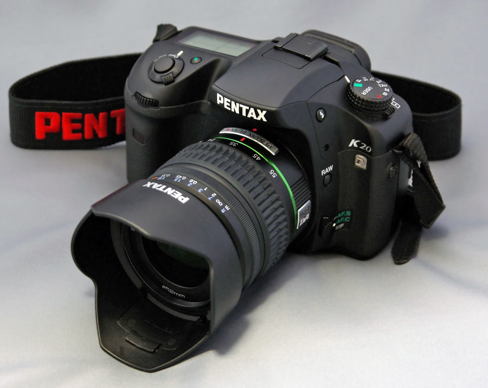 PENTAX K20D Body